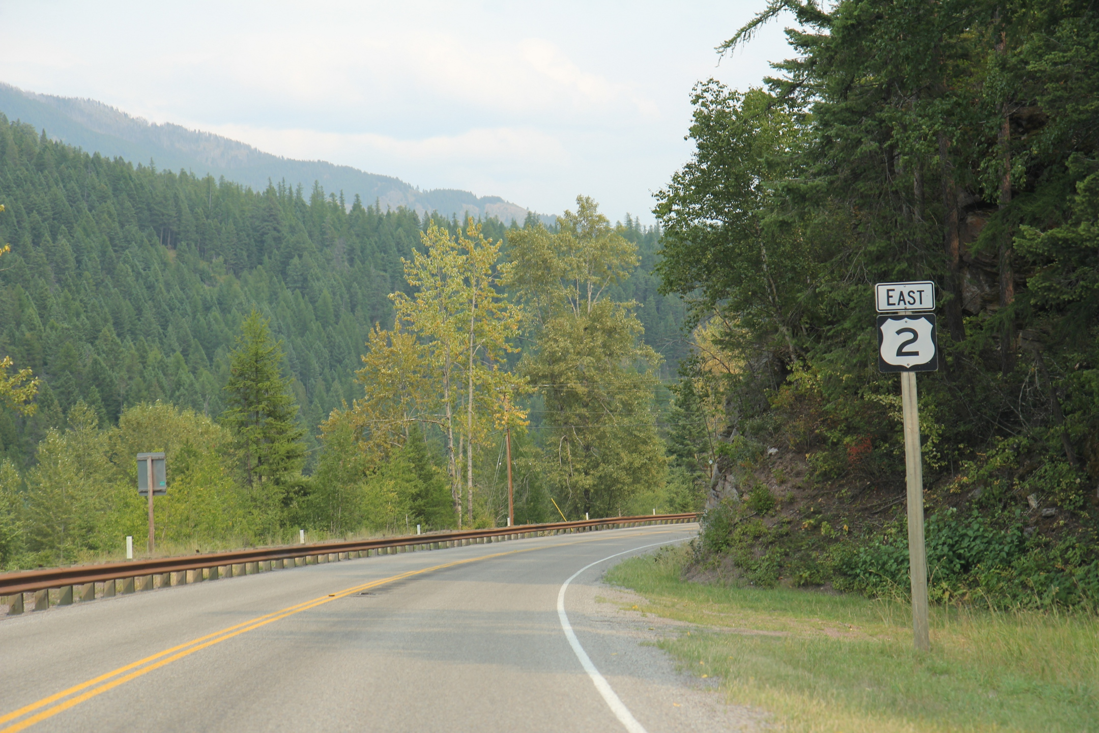 U.S. Route 2 in Flathead County, Montana